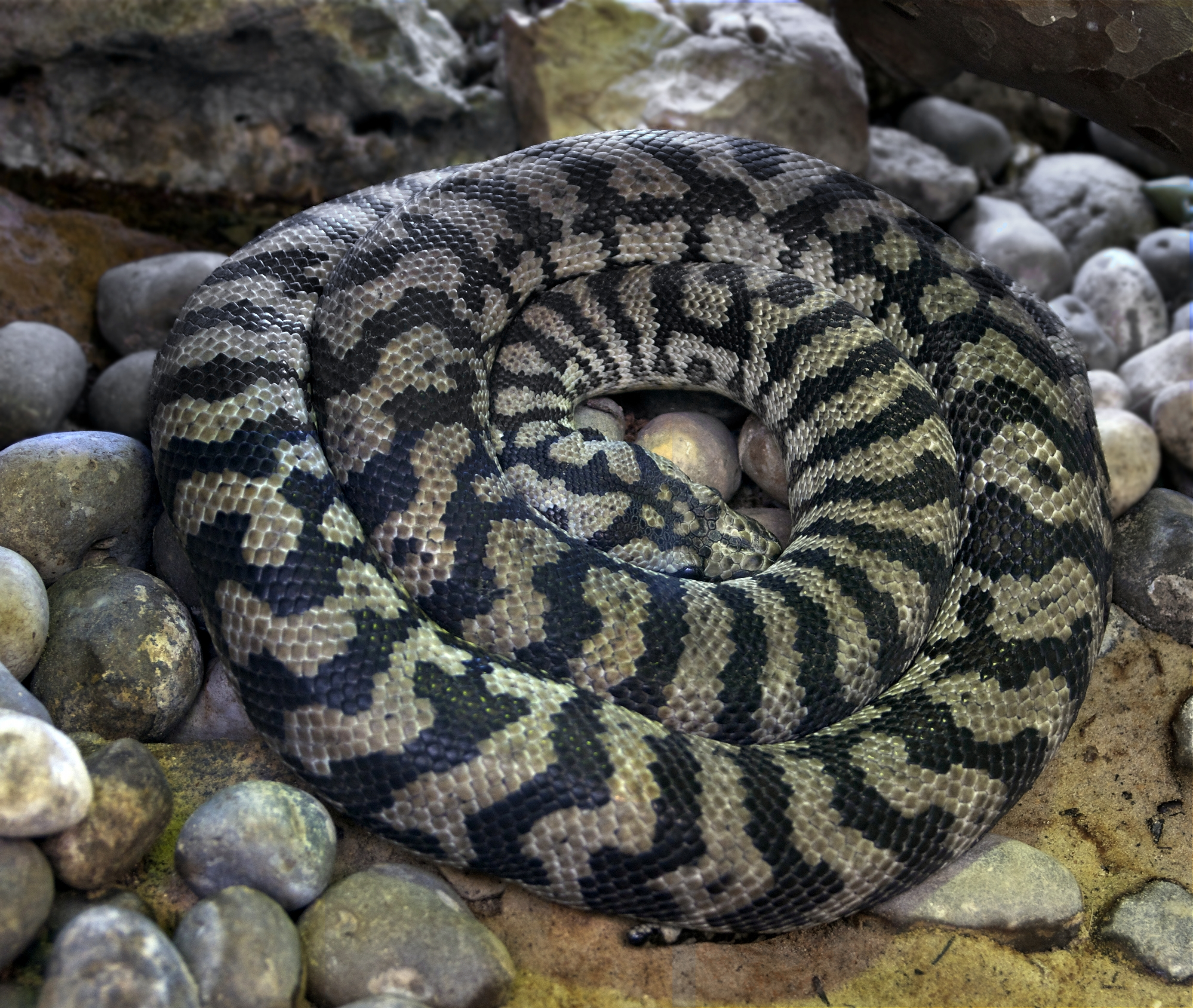 Morelia spilota variegata. Carpet python. Ménagerie du Jardin des Plantes, Paris.